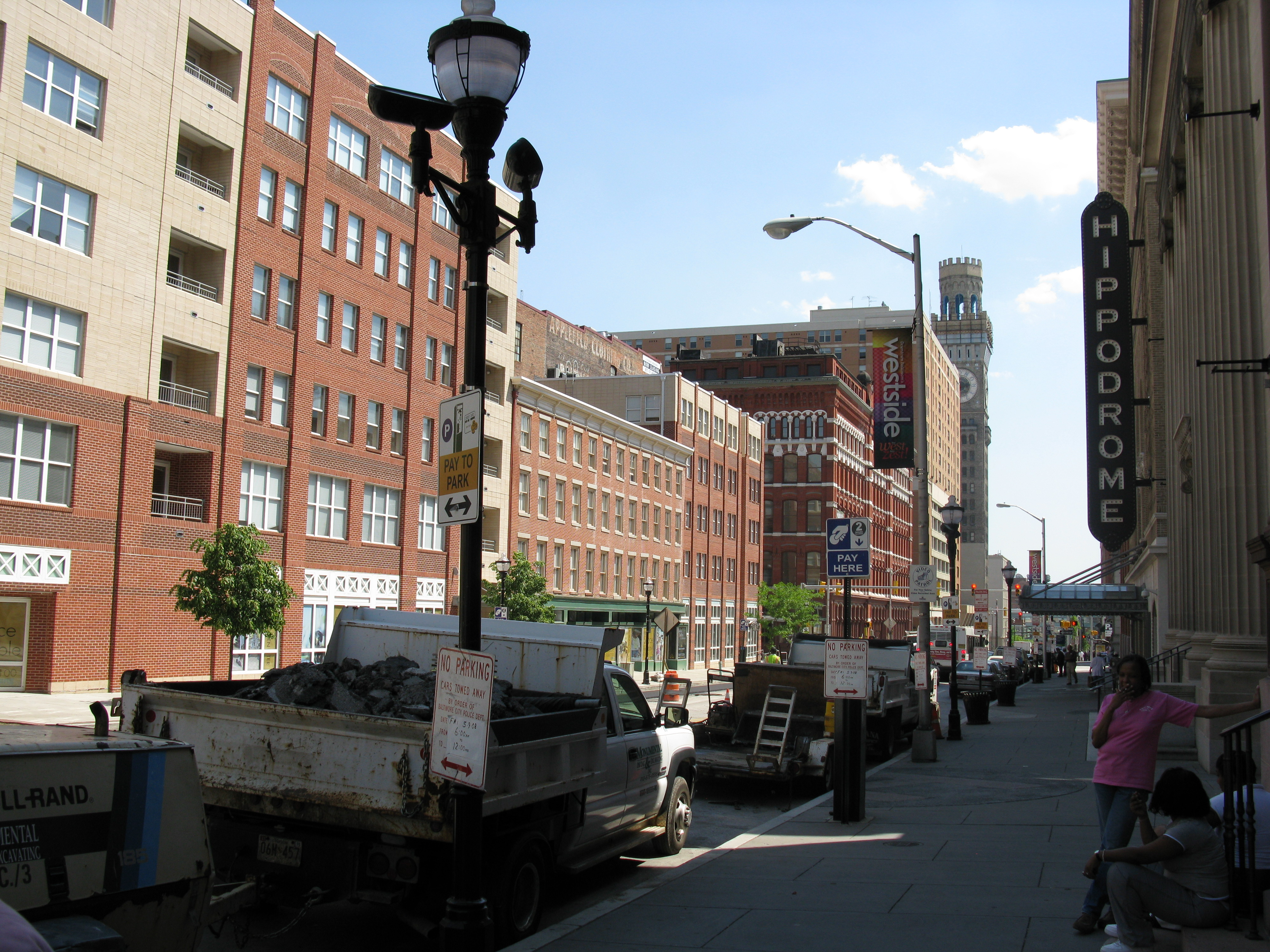 South Eutaw Street between West Fayette Street and West Baltimore Street, Baltimore, Maryland. Also included is the Hippodrome Theatre and the Emerson Bromo-Seltzer Tower.